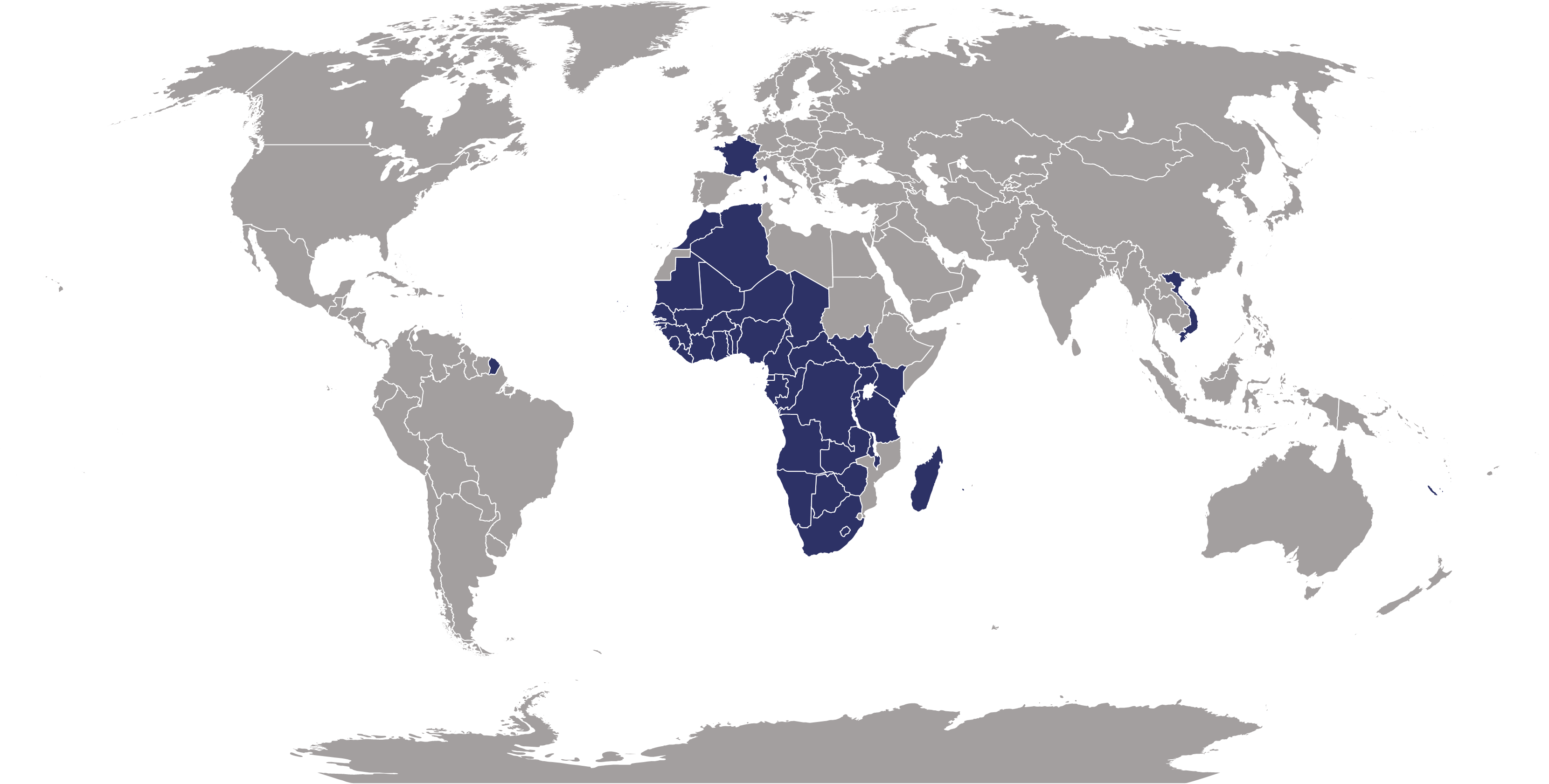 Global locations of CFAO in 2012.